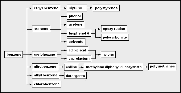 Diagram of petrochemicals produced from benzene.